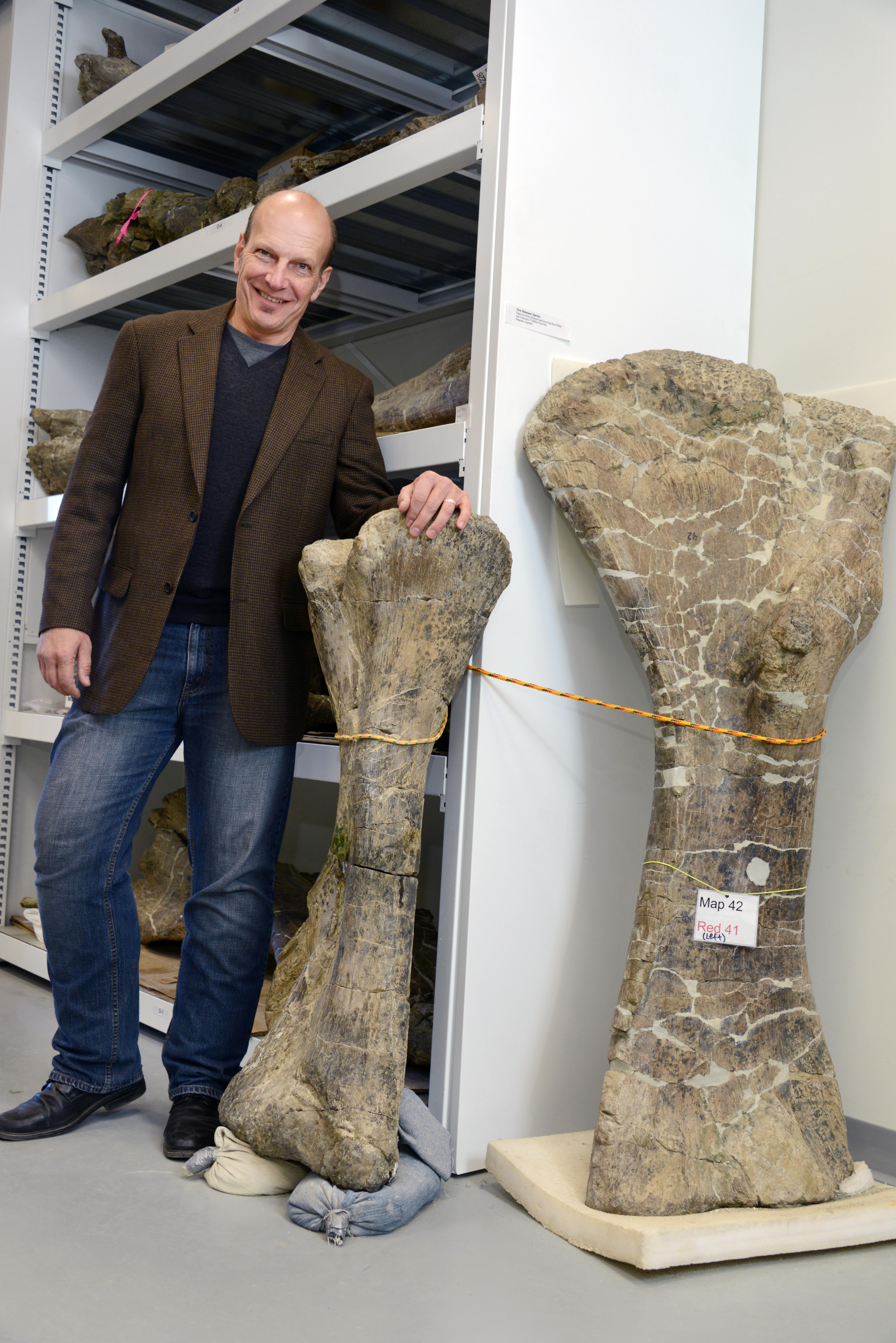 Dr. Kenneth J. Lacovara and the fibula (center) and humerus (right) of Dreadnoughtus schrani